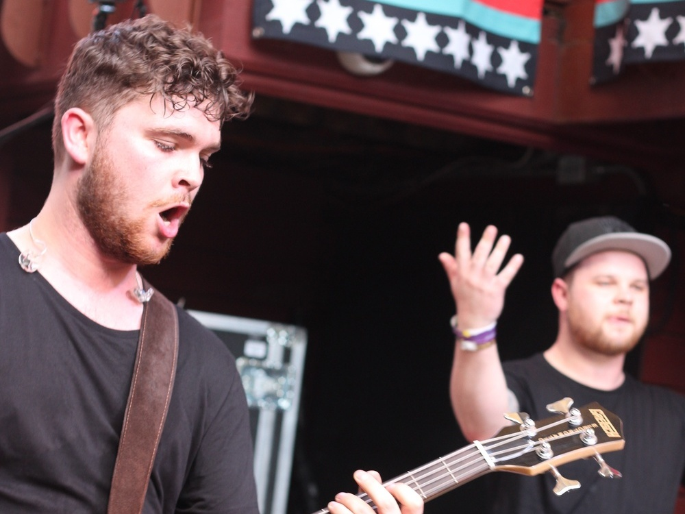 A cropped photo of Royal Blood performing live